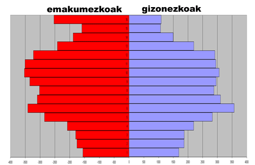 Demographical distribution of Getxo, Bizkaia, Basque Country.